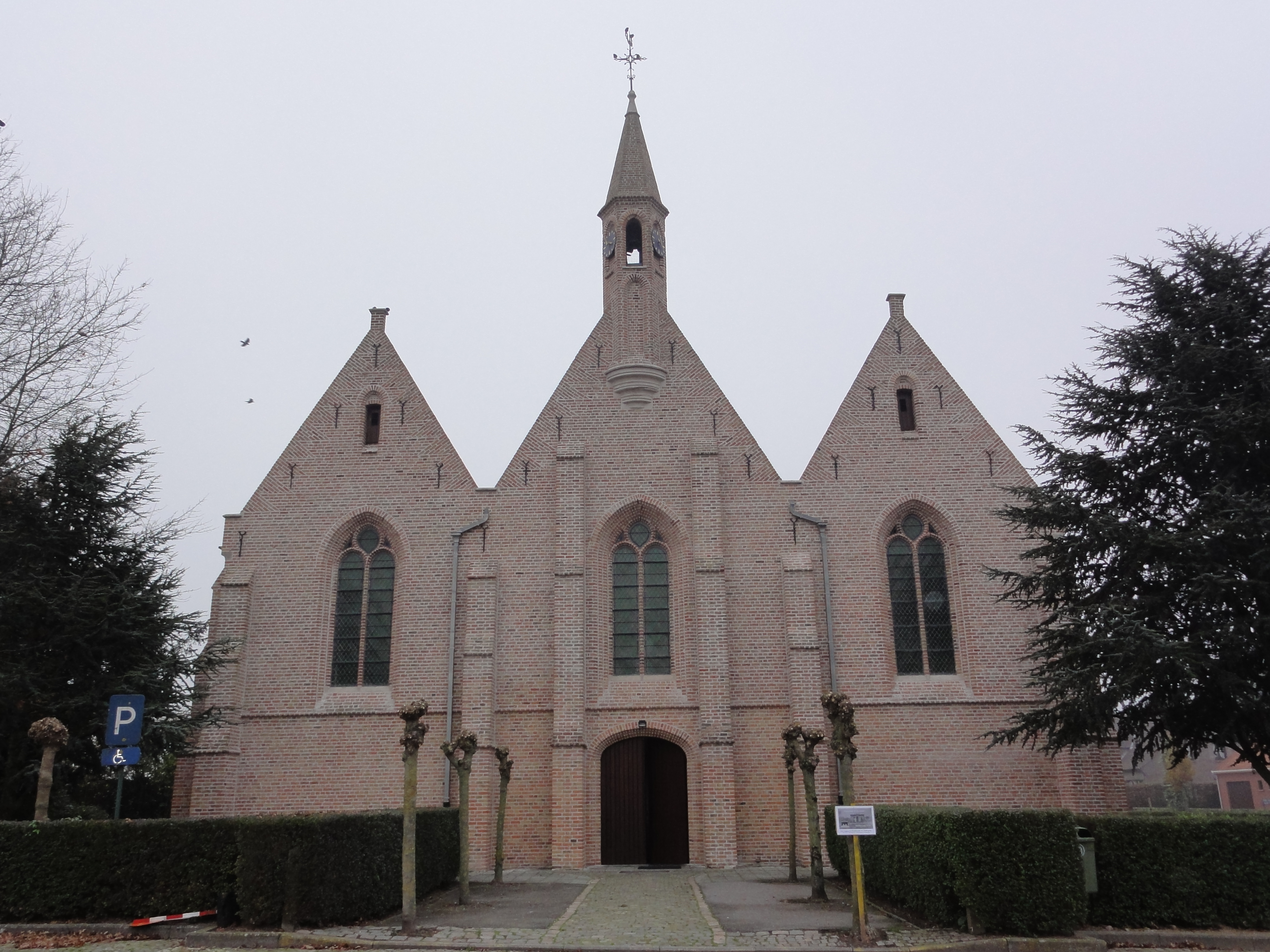 Sint-Juliaankerk (Church of Saint Julian) in Sint-Juliaan. Sint-Juliaan, Langemark, Langemark-Poelkapelle, West Flanders, Belgium